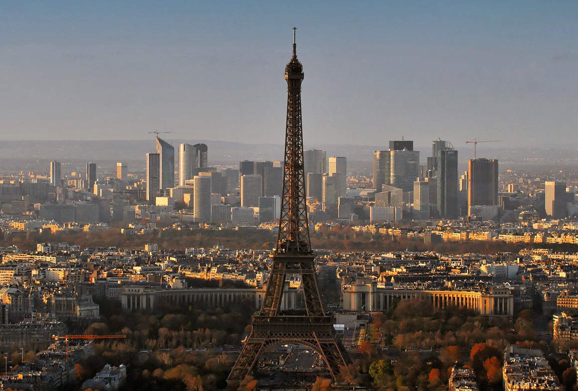 The Eiffel Tower and La Défense business district taken by myself from the Montparnasse Tower on 12-18-07.